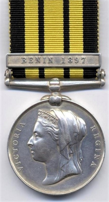 British campaign medal for the Benin Expedition of 1897.